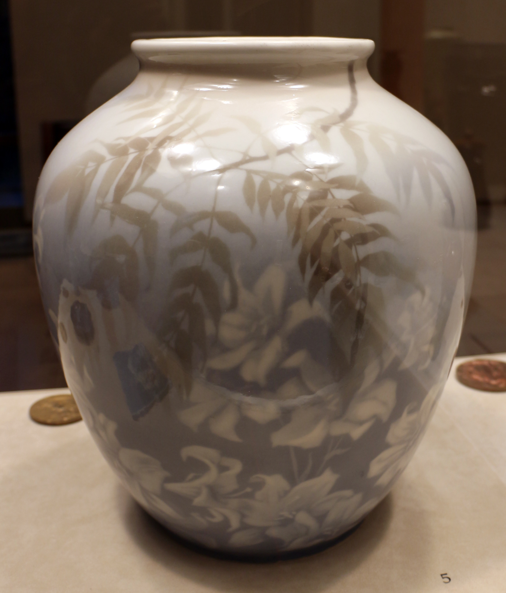 Ceramics in the Cincinnati Art Museum